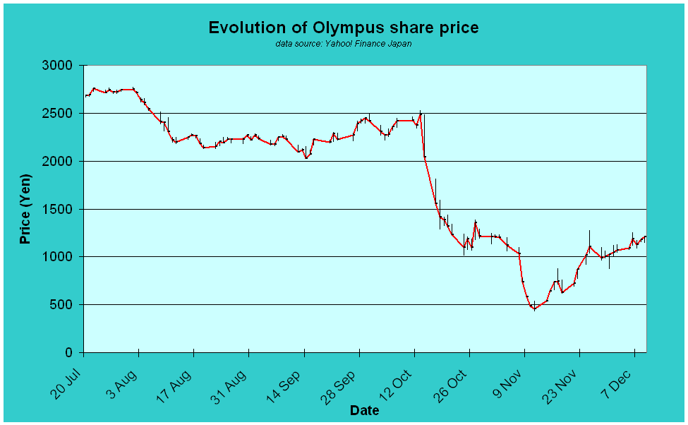 Evolution of Olympus share price in second half of 2011